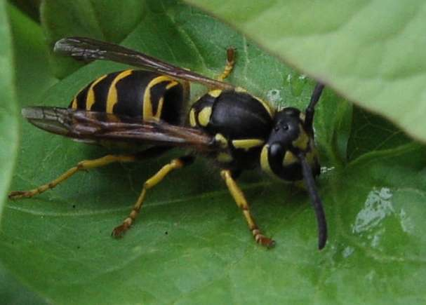 Vespula vulgaris (Common wasp) drinking